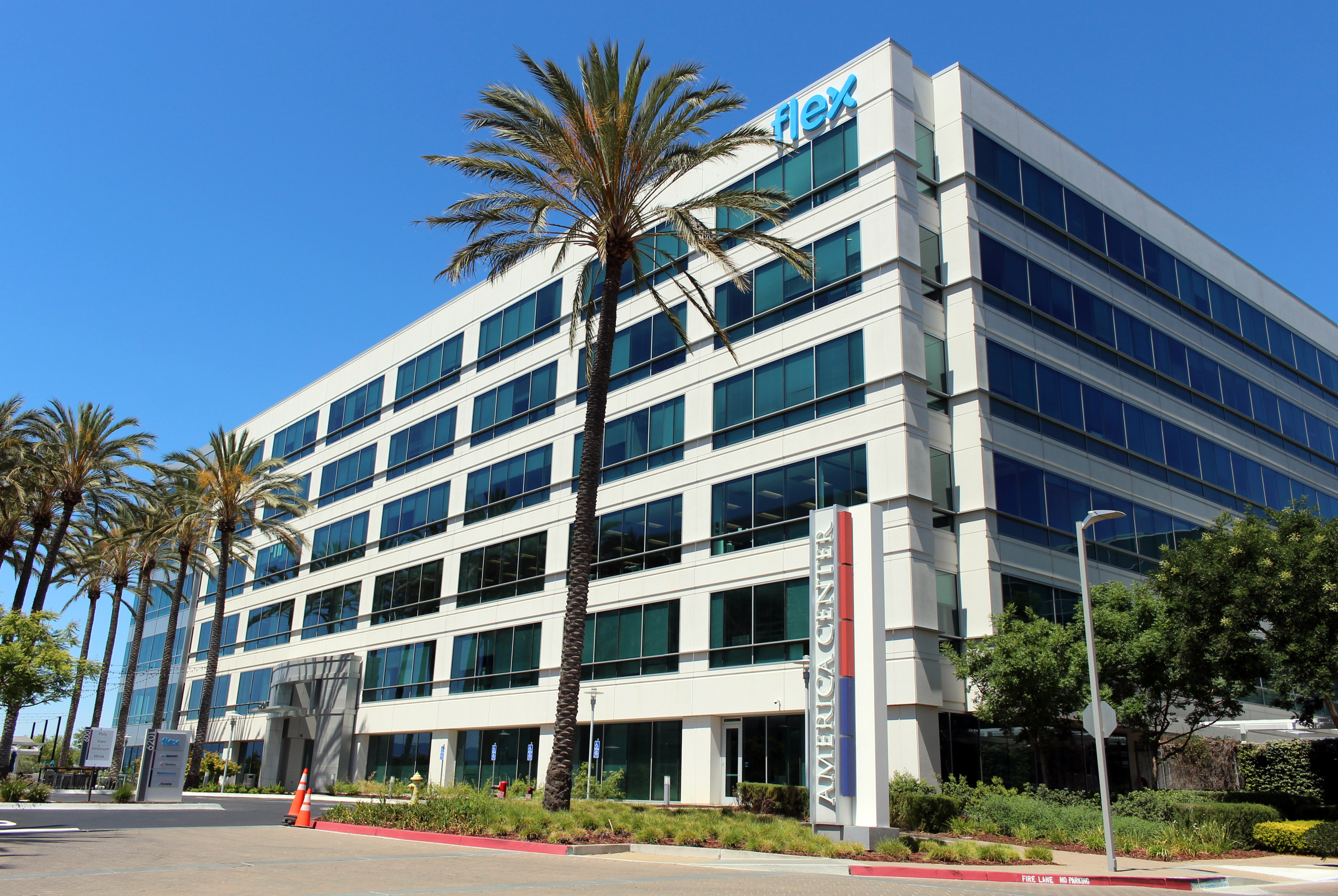 The U.S. headquarters of Flex (formerly Flextronics) at America Center in San Jose, California. Photographed by user Coolcaesar on August 2, 2020.